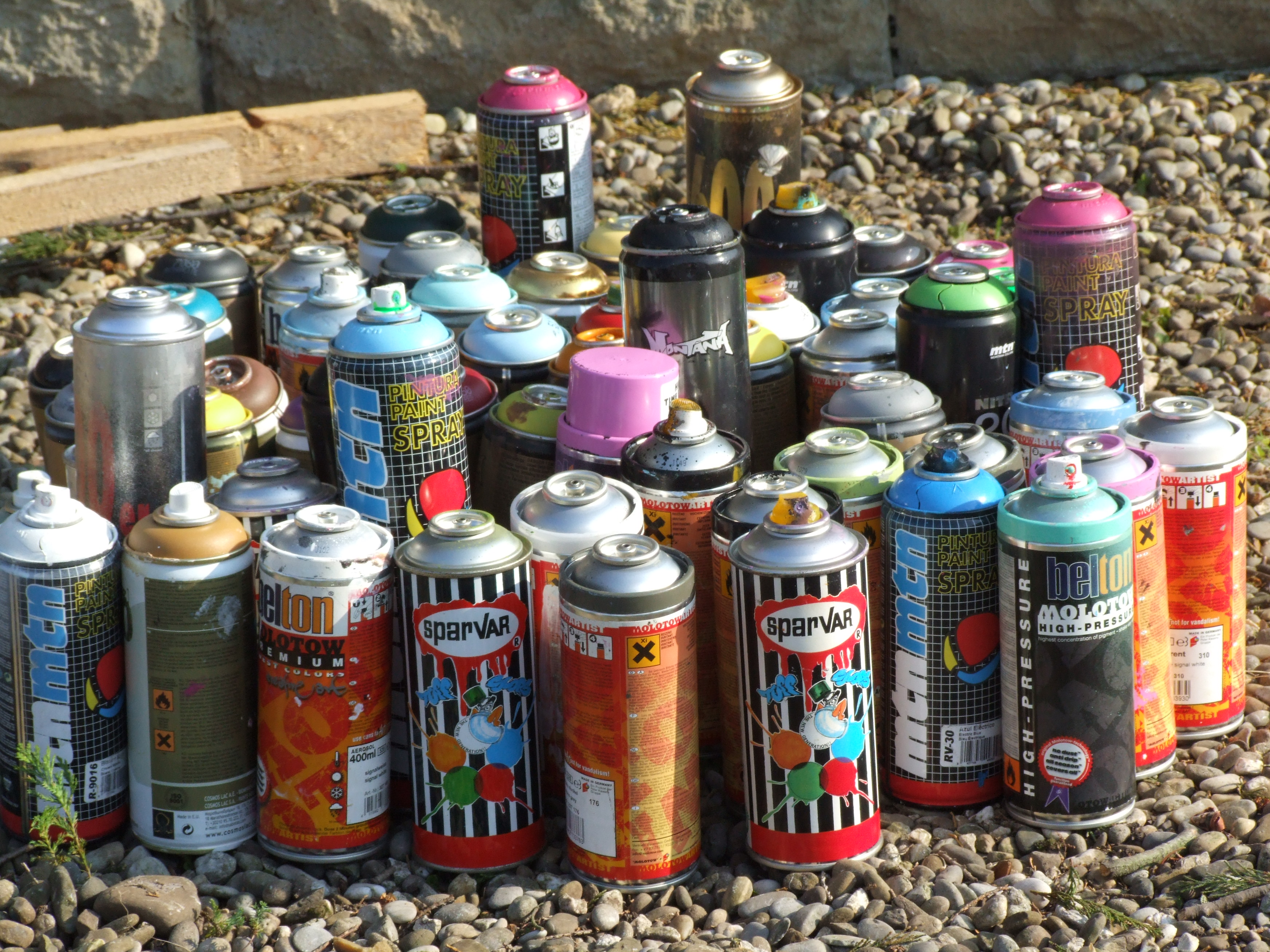 spraypaint cans